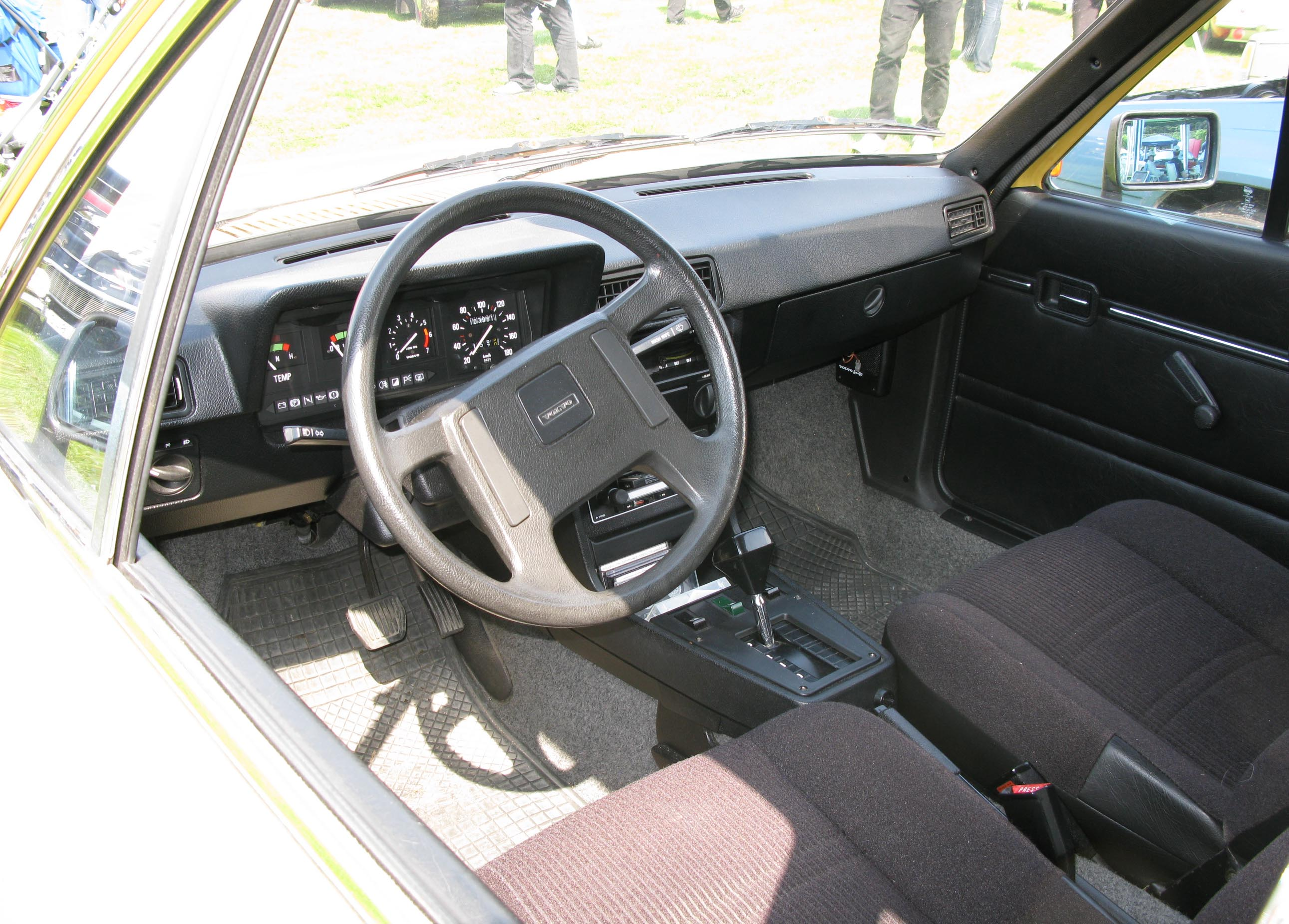 Volvo 340 dashboard. Event: Tjolöholm Classic Motor 2012.